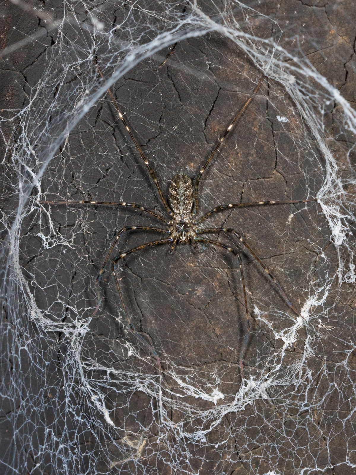 Lampshade spider (Hypochilus pococki) at Oconaluftee, Great Smoky Mountains National Park, Swain County, North Carolina, USA